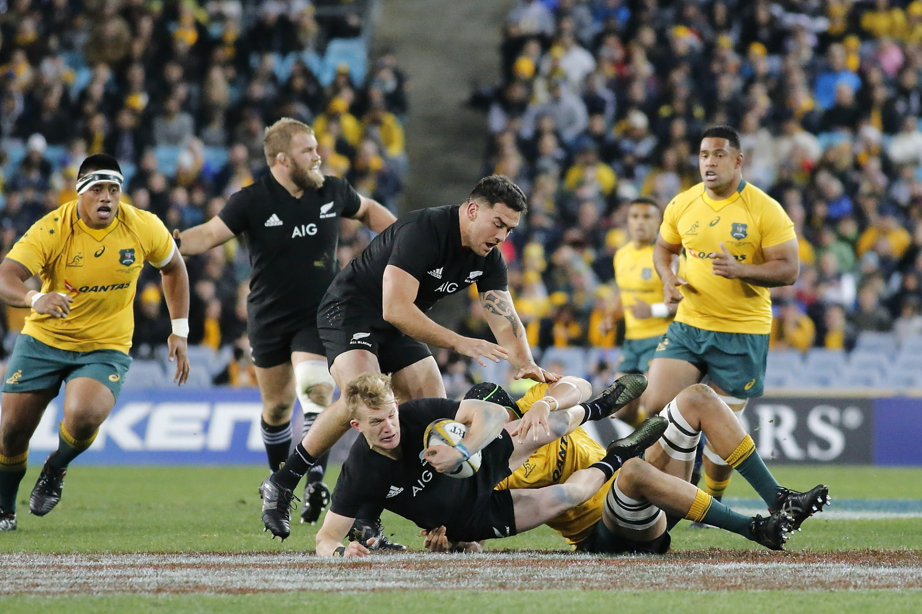 2017.08.19.20.15.44-Ruck-0001 2017 Rugby Championship, Bledisloe 1, Australia vs New Zealand, 19th August, ANZ Stadium, Sydney